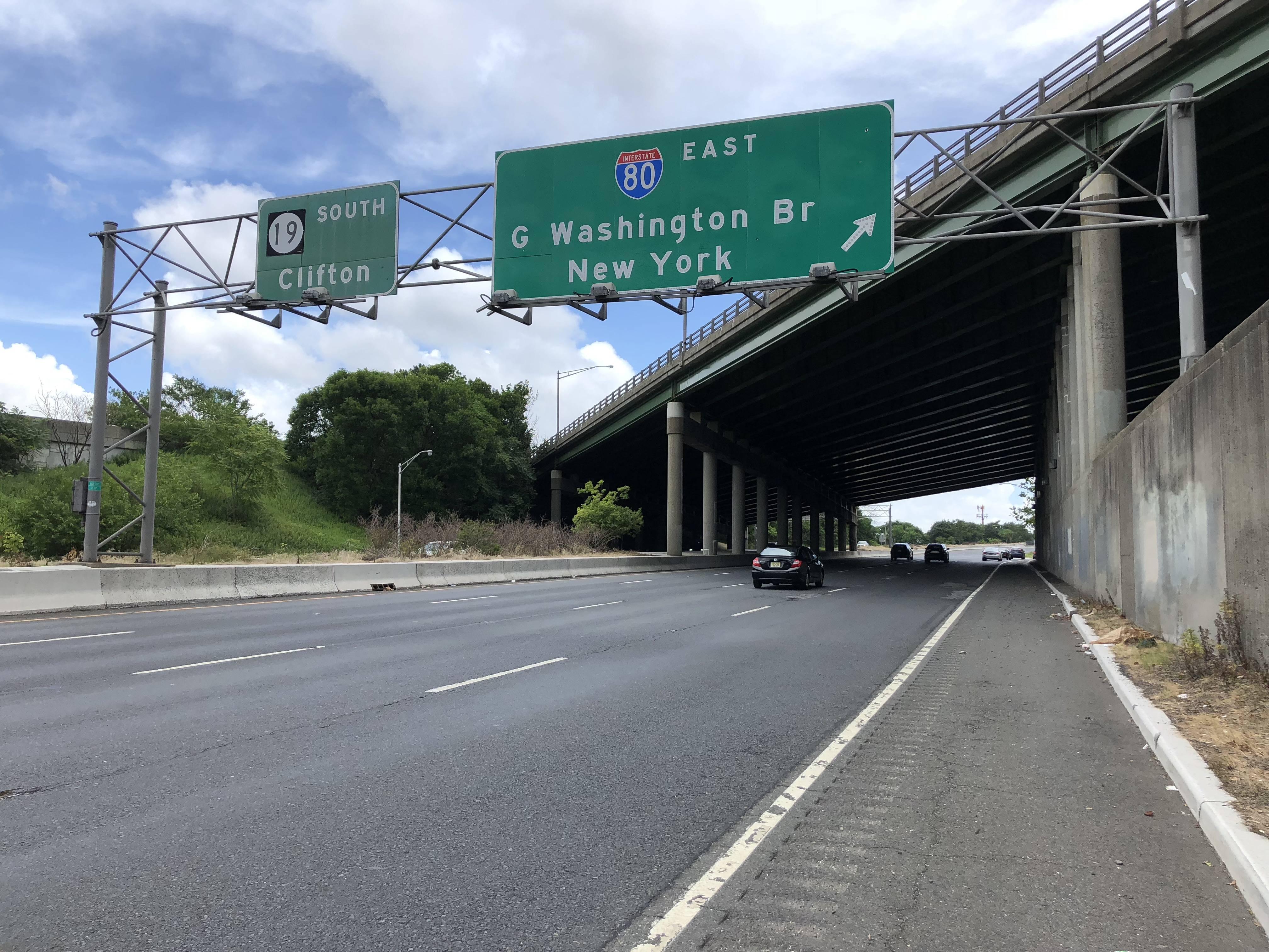 View south along New Jersey State Route 19 at the exit for Interstate 80 EAST (George Washington Bridge, New York) in Paterson, Passaic County, New Jersey